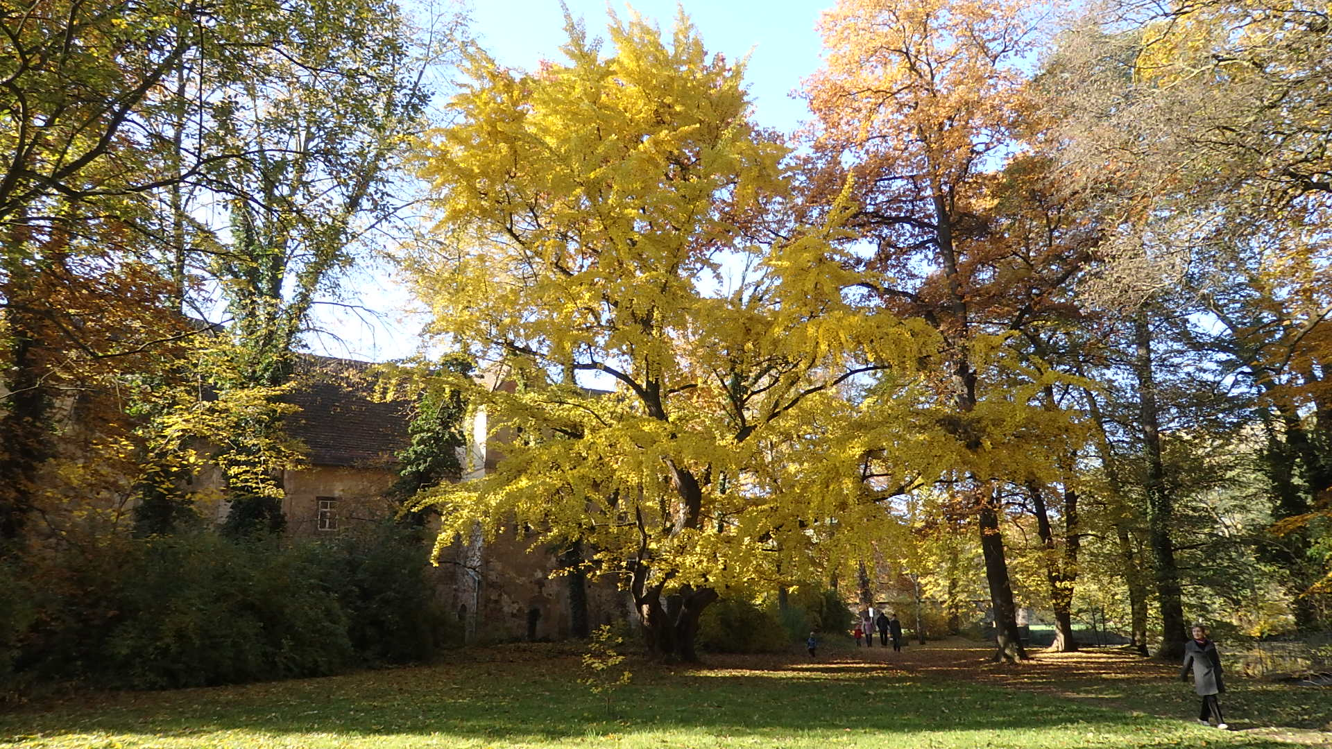 Ginkgo biloba in the park of castle of Jahnishausen